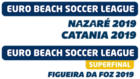 Composite image combining different logos of the 2019 EBSL season.